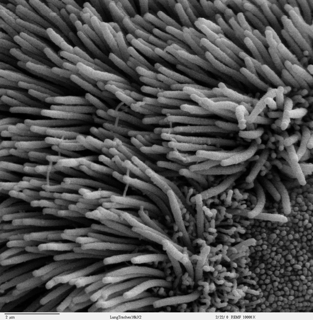 Scanning electron microscope image of lung trachea epithelium. There are both ciliated and on-ciliated cells in this epithelium. Note the difference in size between the cilia and the microvilli(on non-ciliated cell surface) Zeiss DSM 962 SEM